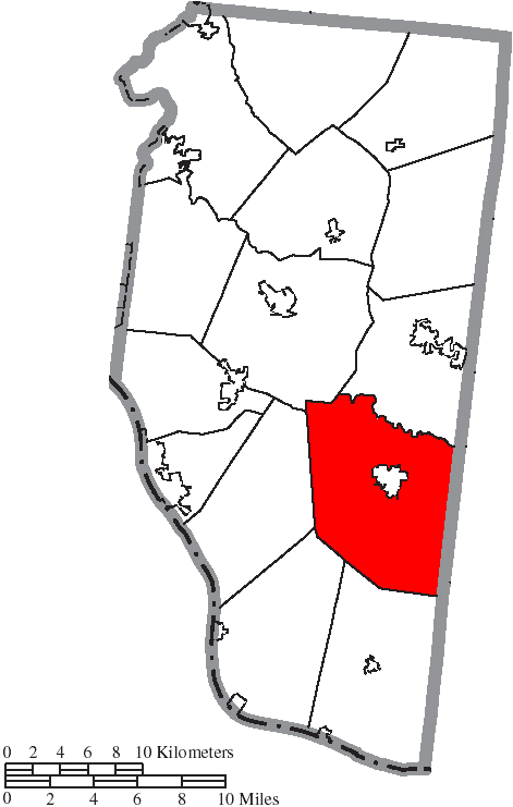 Map of the municipal and township boundaries of Clermont County, Ohio, United States, as of the 2000 census, with the location of Tate Township highlighted. Township borders are shown only in unincorporated areas in order to differentiate incorporated and unincorporated areas more clearly.